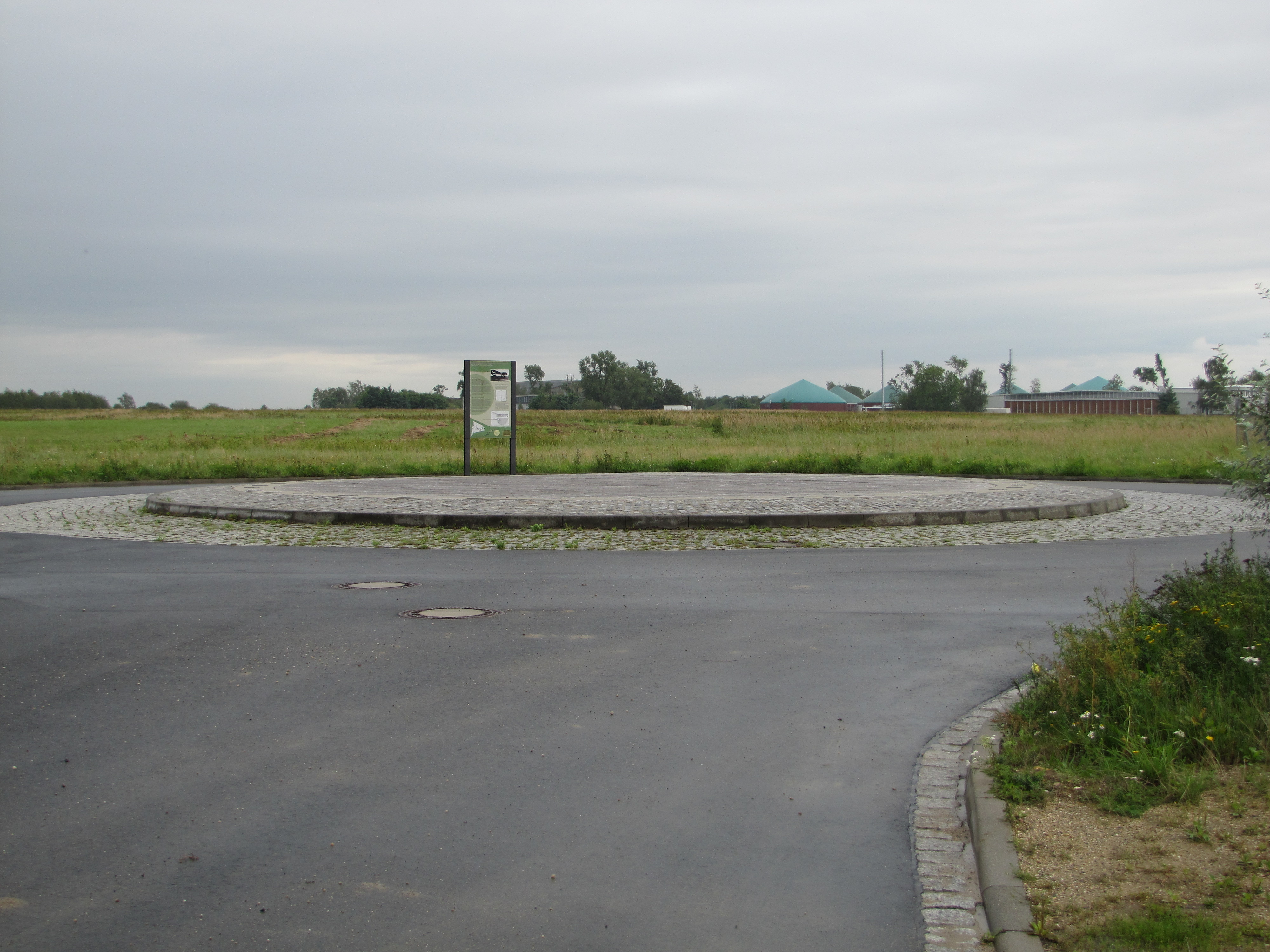 Former Compensation Disk of Airfield Großenhain